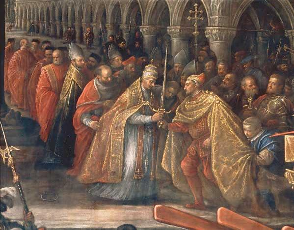 Francesco Bassano, Pope giving a Blessed Sword to a Doge of Venice